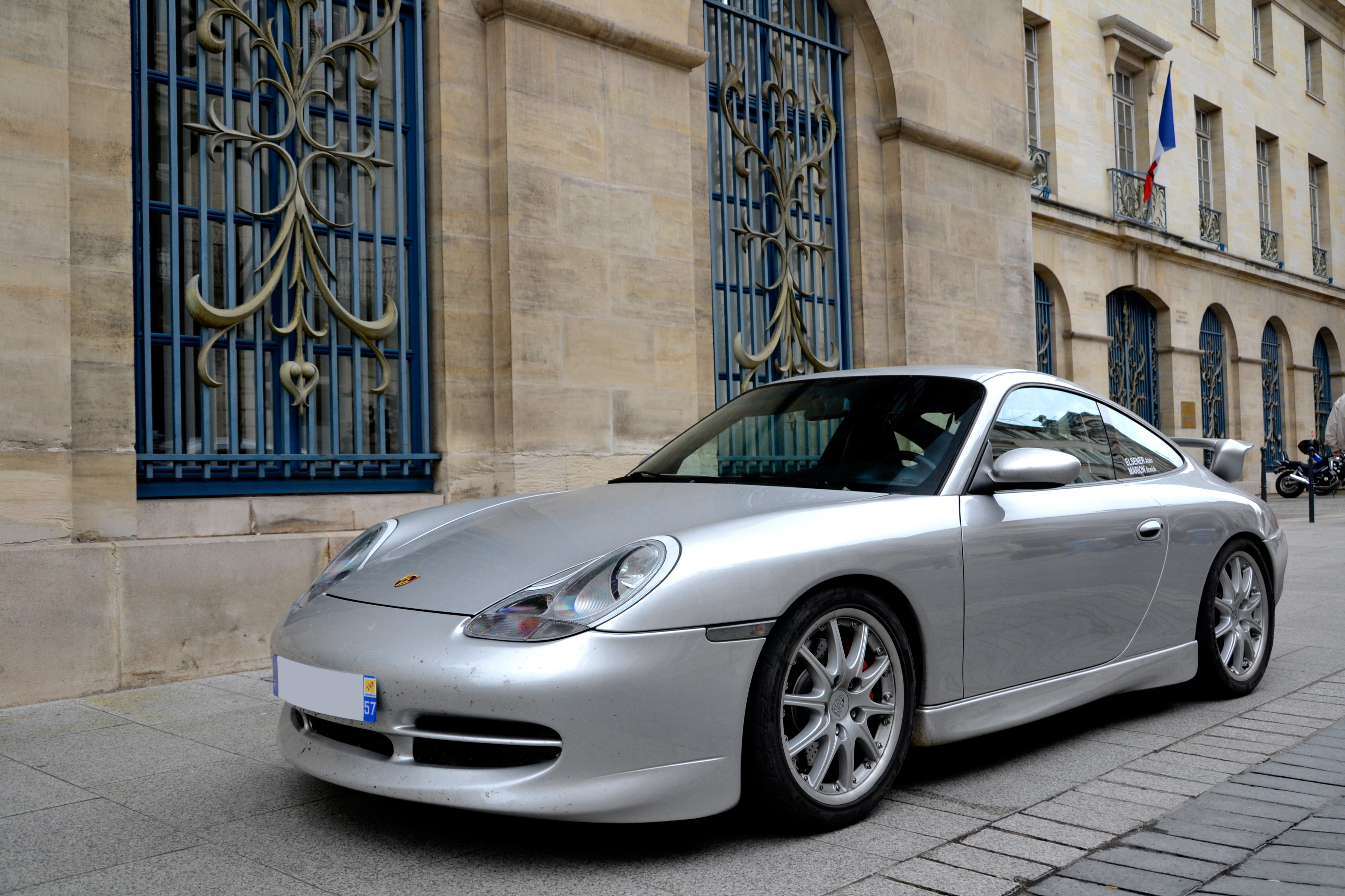 Silver 1999 Porsche 911 GT3 (996) seen in Nancy, France on 2012-06-24.